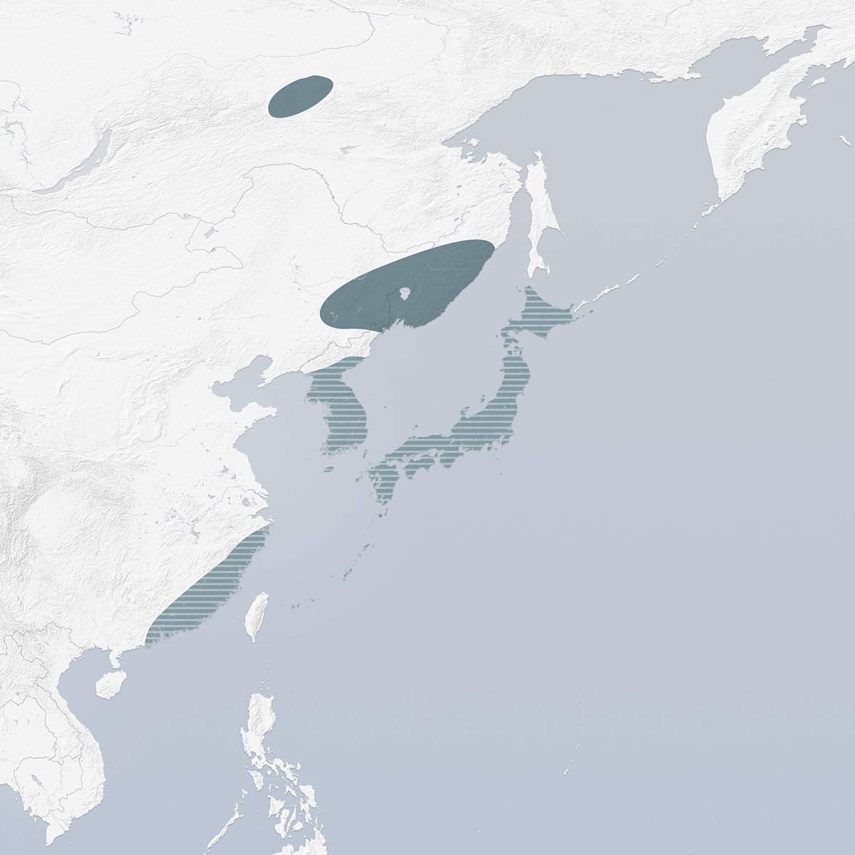 Presumable breeding (full) and winter distribution (striped) of Swinhoe’s Rail (Coturnicops exquisitus)